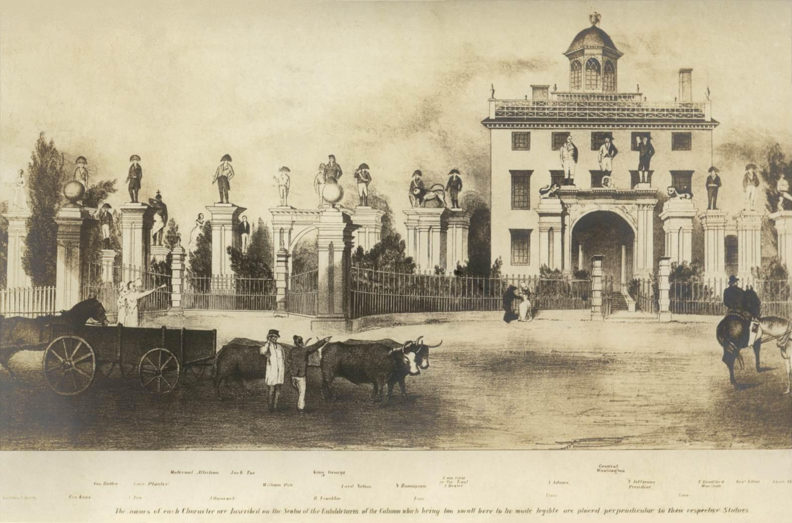 "Lord" Timothy Dexter House, Newburyport, MA.